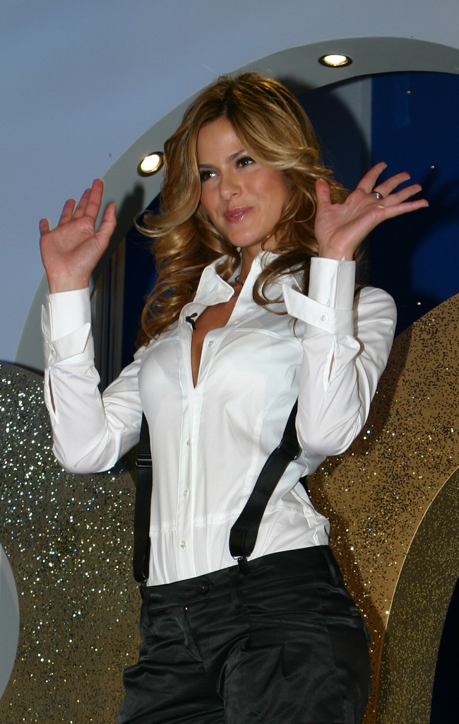 Thais Souza Wiggers at the presentation of the 2007 edition of Striscia la notizia, an italian tv show.